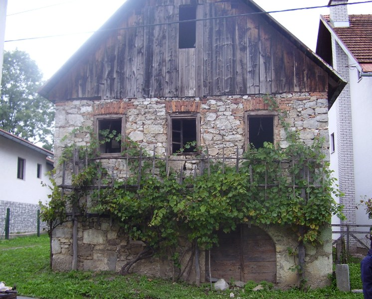 Old house in Blazhevci